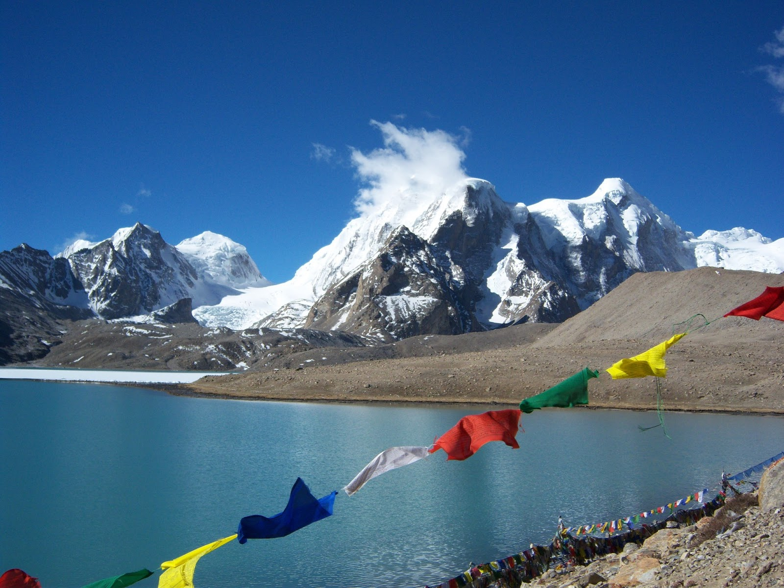 Buddhist Flag flutters in GuruDongmar Lake